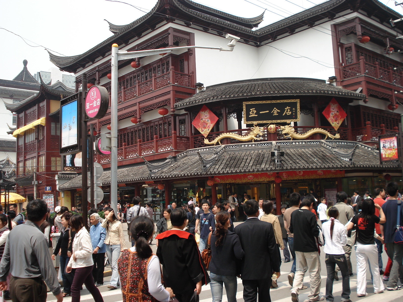 The Chenghuang Miao (City God Temple) in Shanghai